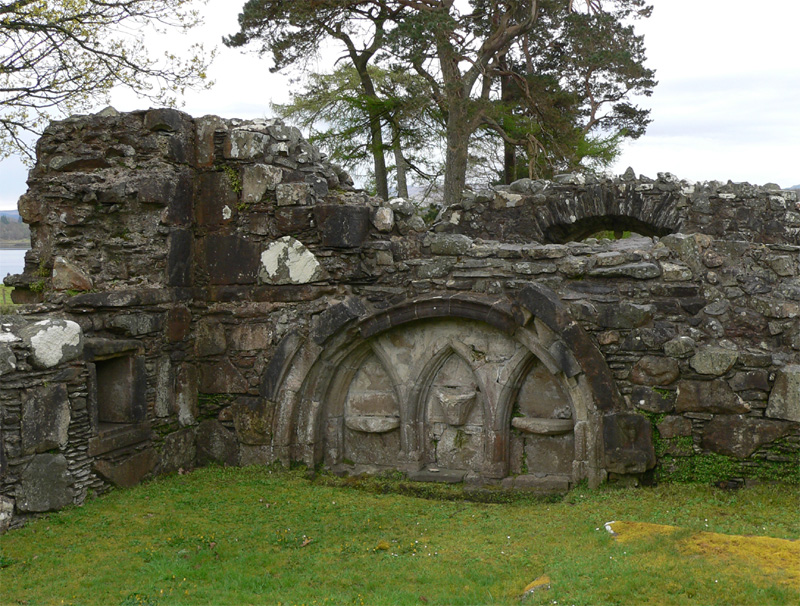 Ardchattan Priory, Argyll and Bute, Scotland - choir